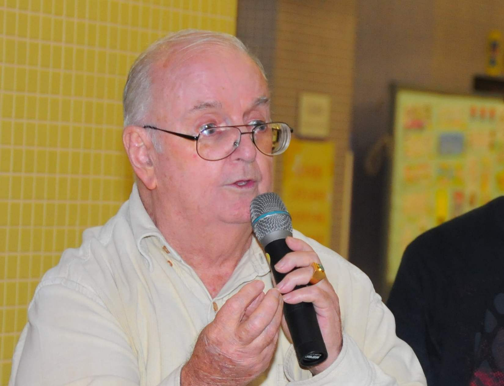 Father Anthony Brennan, Supervisor of Bishop Paschang Catholic School